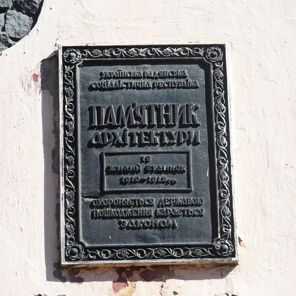 Moroz house in Kiev.